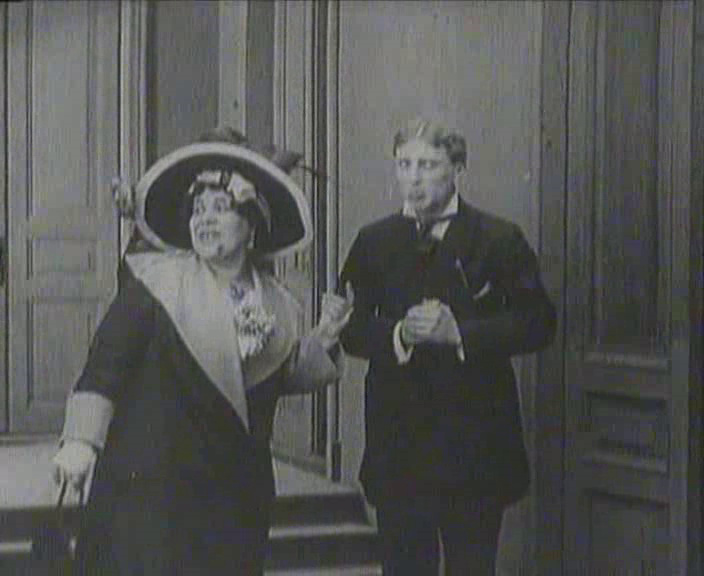 Screenshot from film "Uncle's apartment"